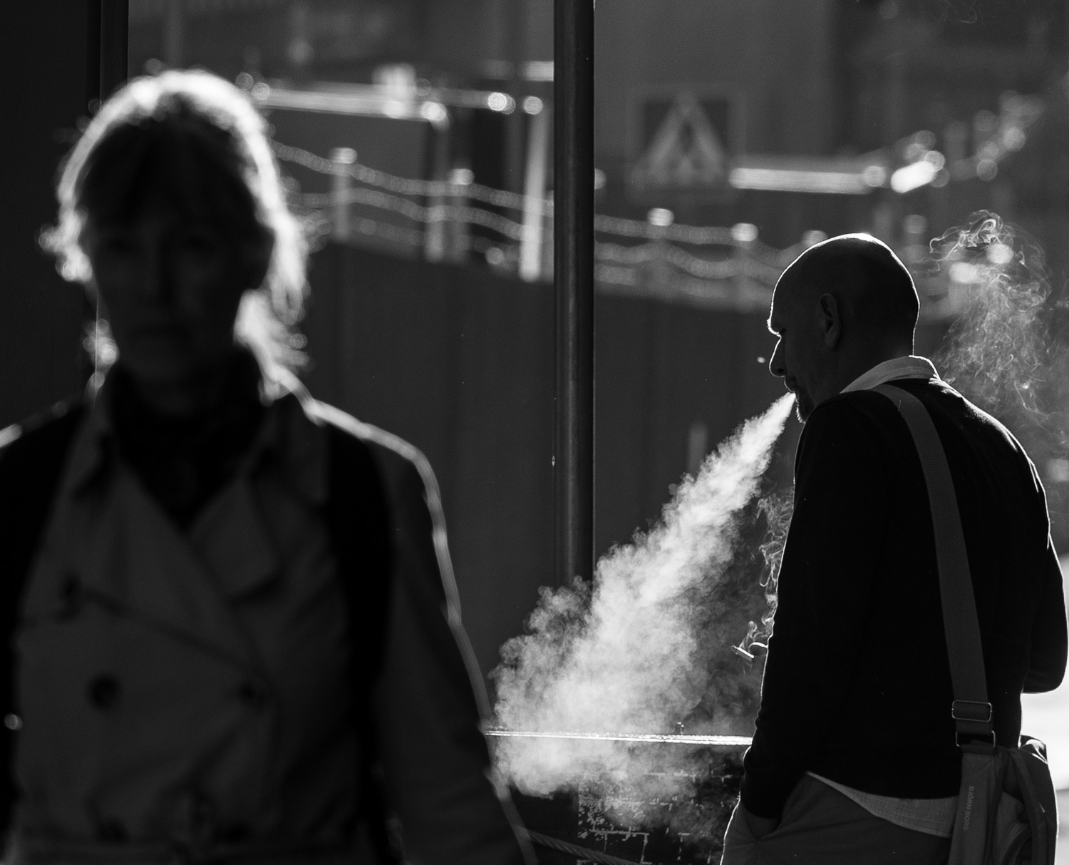 Smoking man in Stockholm city 2016.